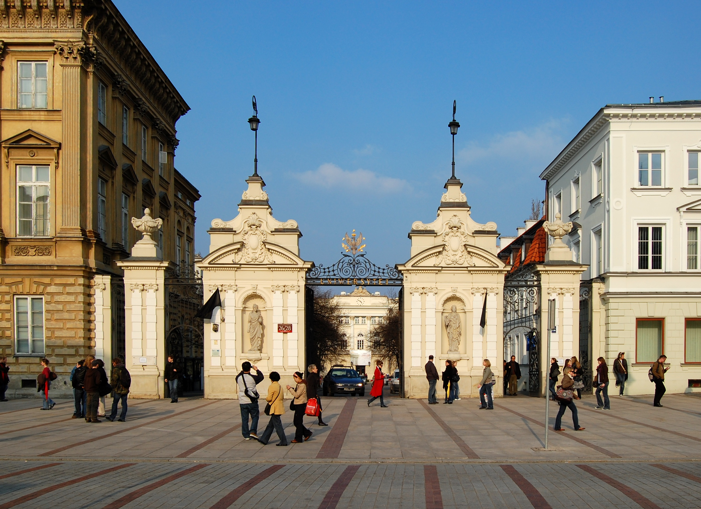 Warsaw University Main Gate This is a retouched picture, which means that it has been digitally altered from its original version. Modifications: perspective correction adjusted.